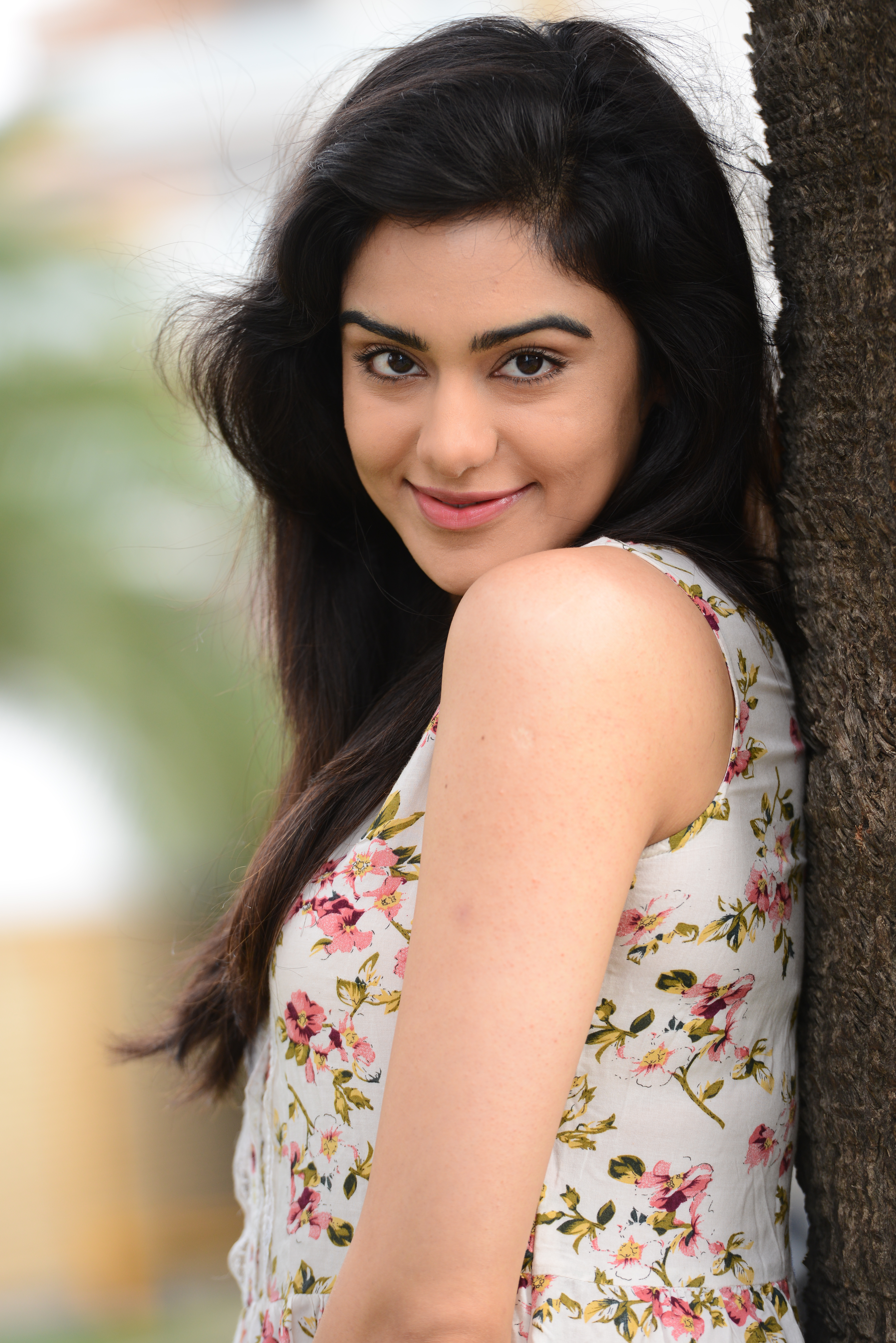 india